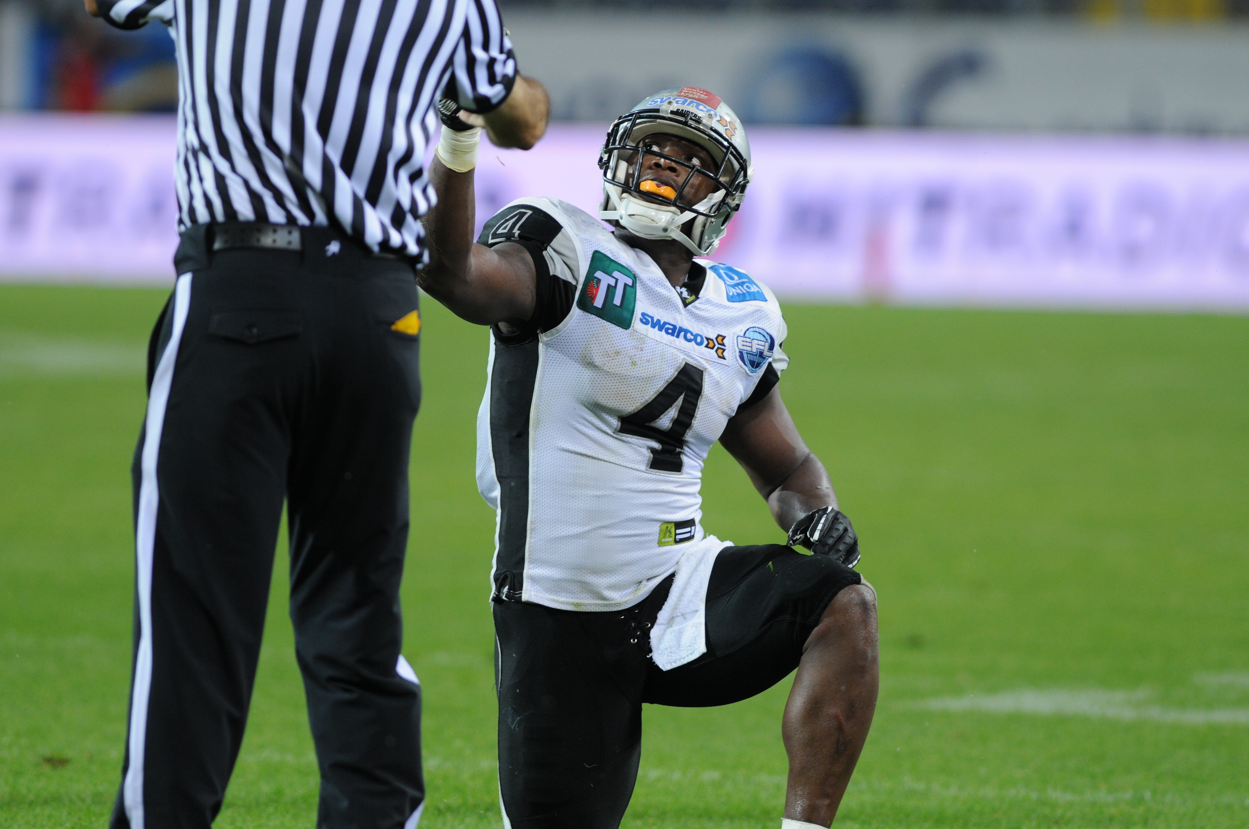 Talib Wise at Austrian Bowl XXIX in St. Pölten